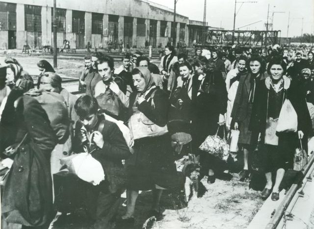 Warsaw Uprising. Polish civilians expelled from Warsaw in German Transit Camp in Pruszków (Dulag 121). These women and children were photographed before displacement to the western districts of General Government.